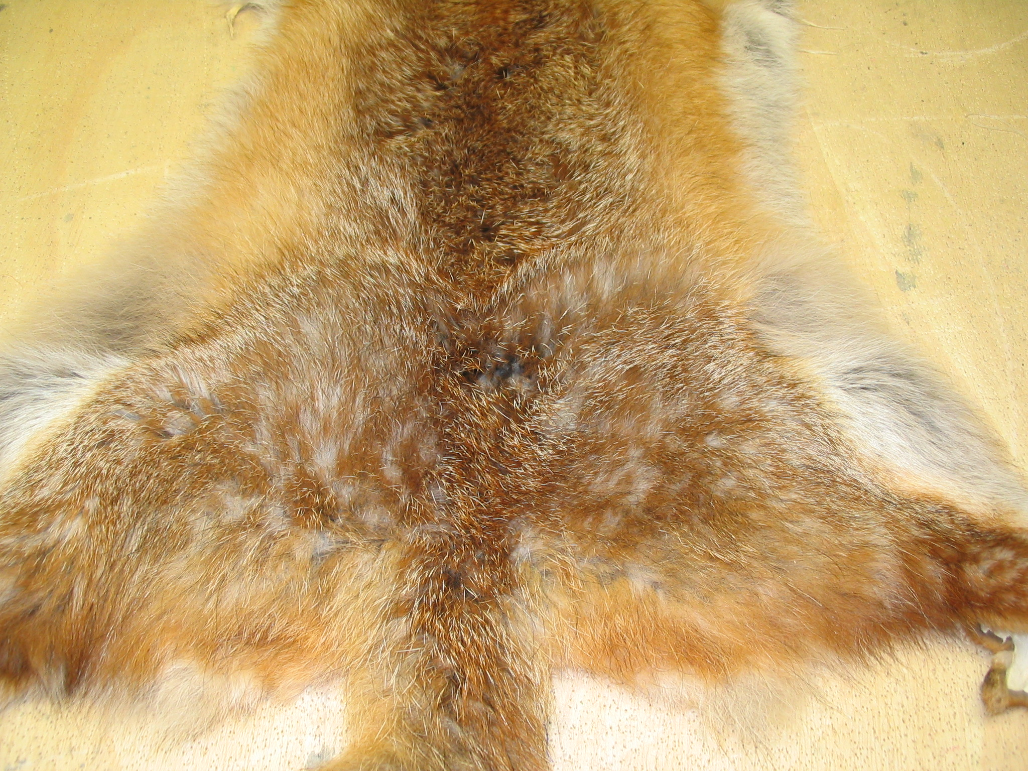 German red fox fur skin, white spotted. 3 images.